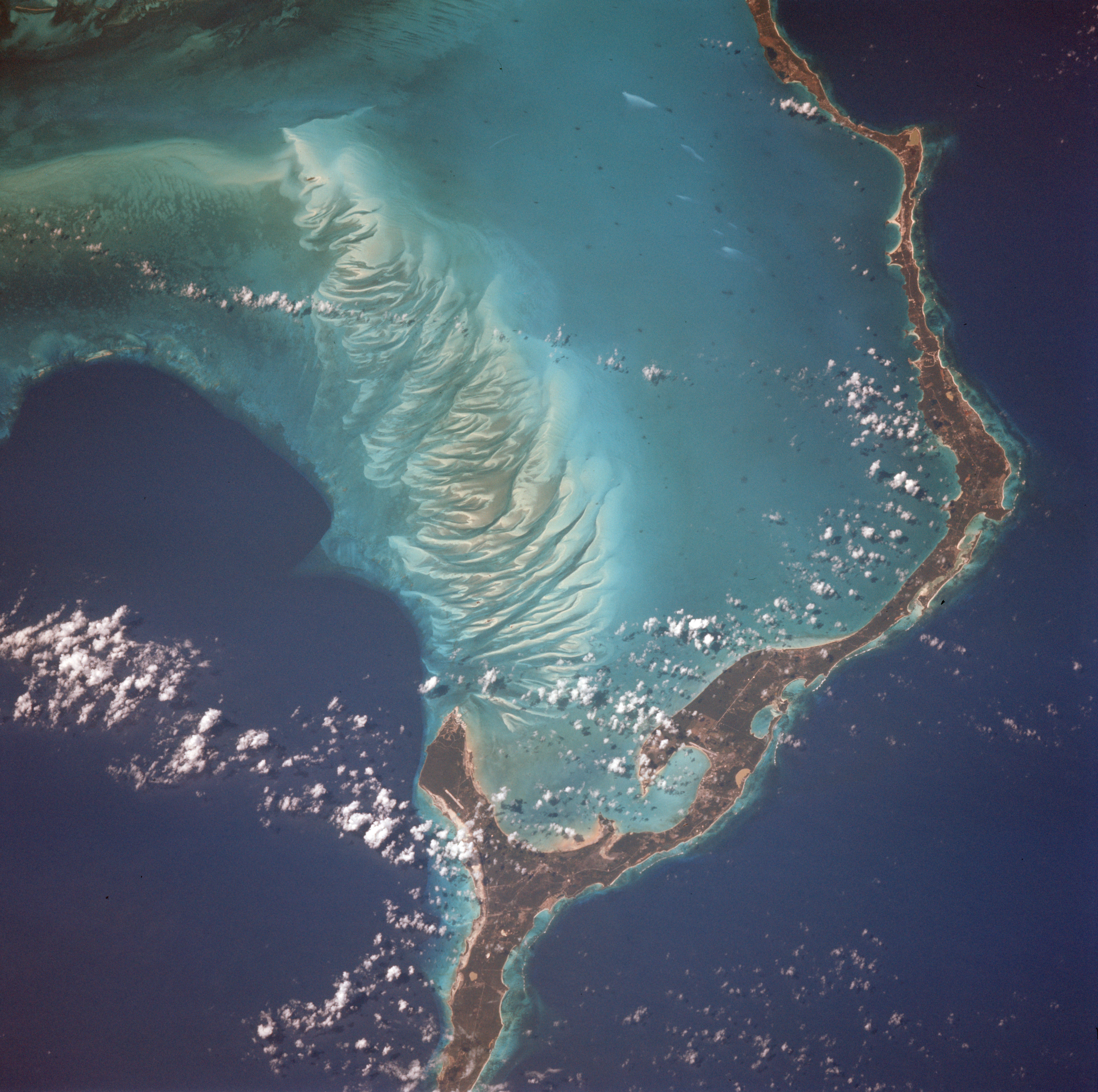 NASA Photo ID: STS001-12-322 File Name: 10060368.jpg Film Type: 70mm Date Taken: 04/14/81 Title: Eleuthera Island, Bahamas Description: Eleuthera Island, (24.5N, 76.0W) Bahamas Island Group, is one of several within the archipelago surrounded by shallow seas, visible here as light blue. Mosaic patterns of sand waves built by sea bottom currents in the shallows stand out in stark contrast to the deep blue of the ocean depths of a thousand feet in the Exuma Sound.